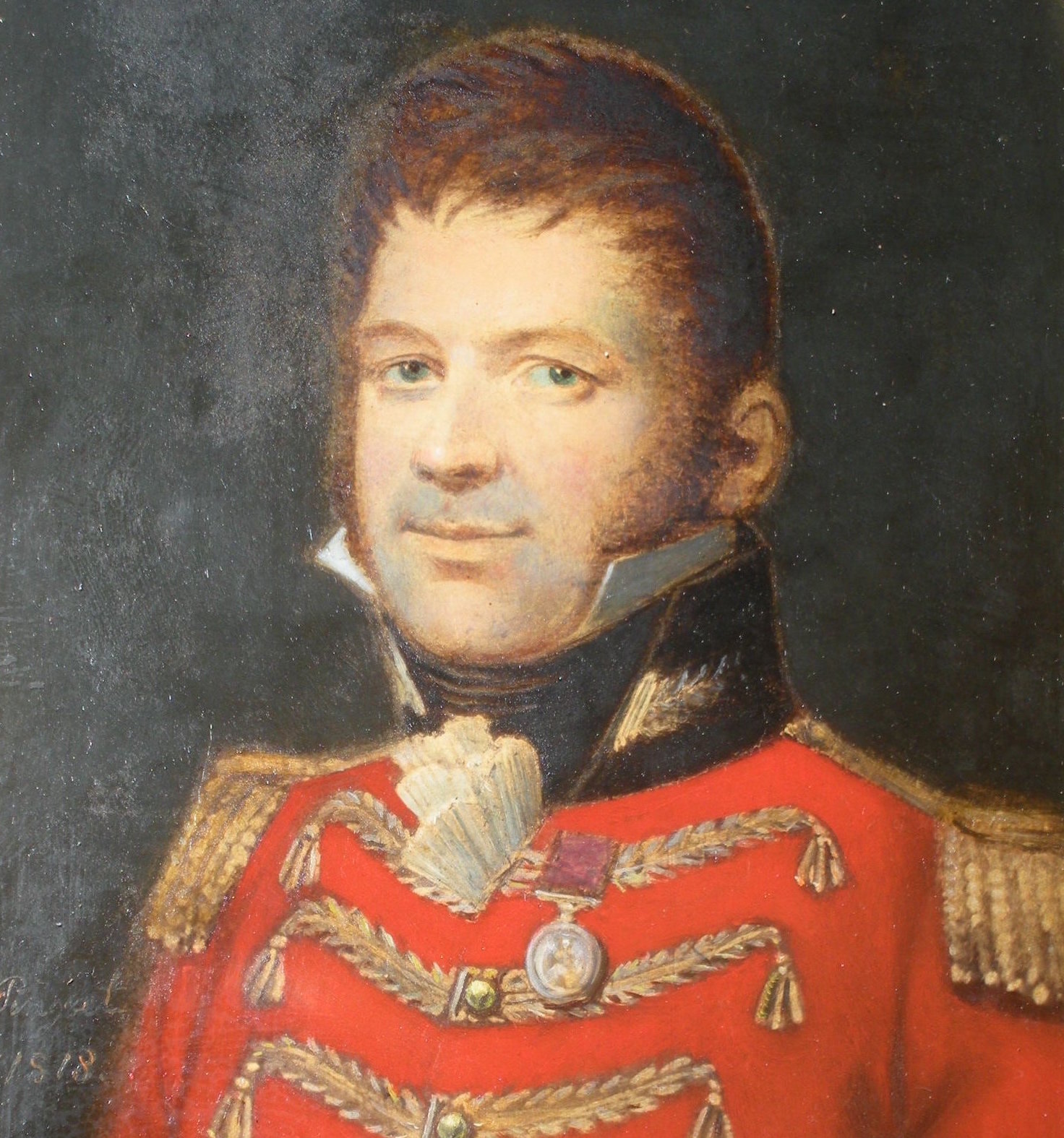 Portrait painted in 1818 by Edouard Henri Théophile Pingret (1785-1869).